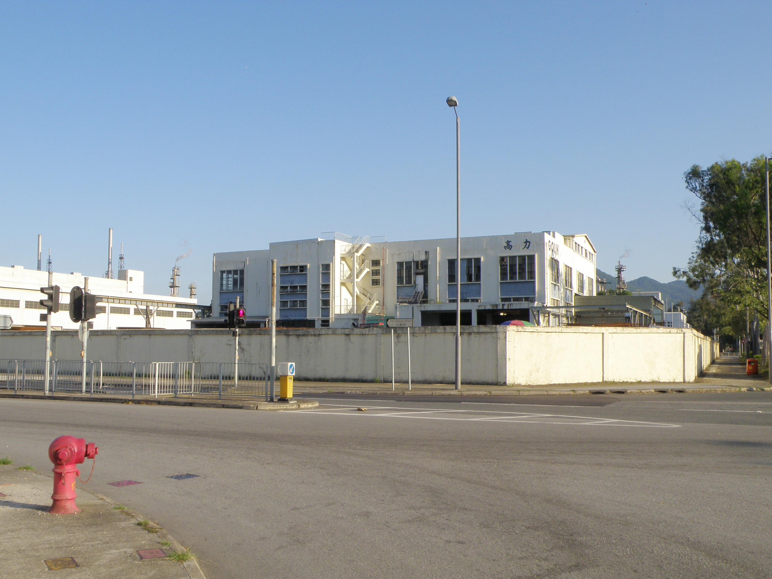 Golik Metal Company Limited in Tai Po, Hong Kong.